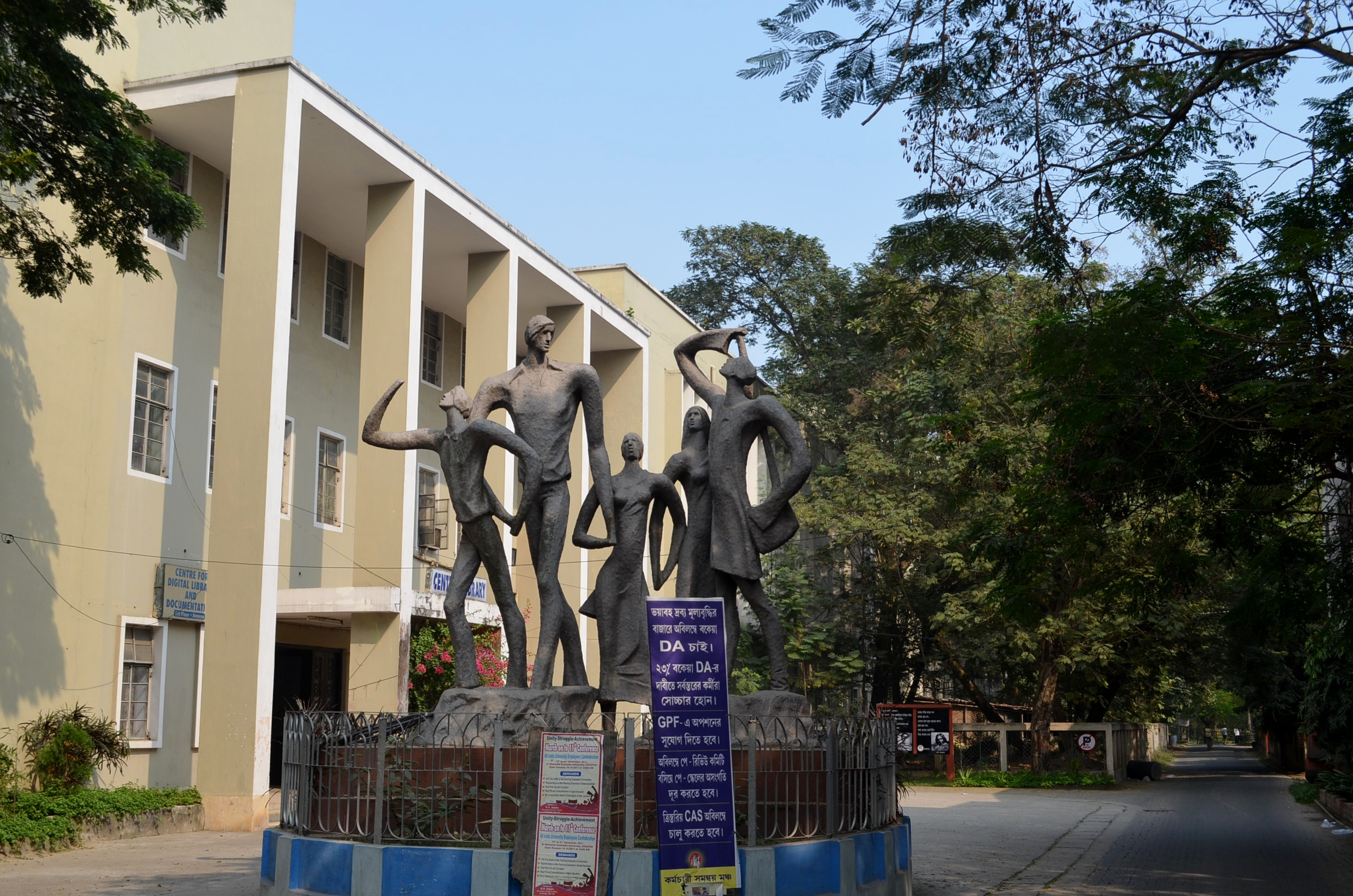 The main library inside Jadavpur University.